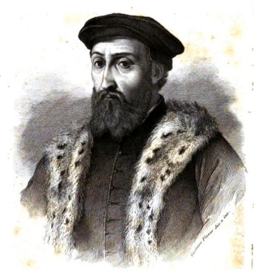 Filippo Strozzi, drawing from the original painted portrait of Filippo Strozzi in the Duke Strozzis Collection